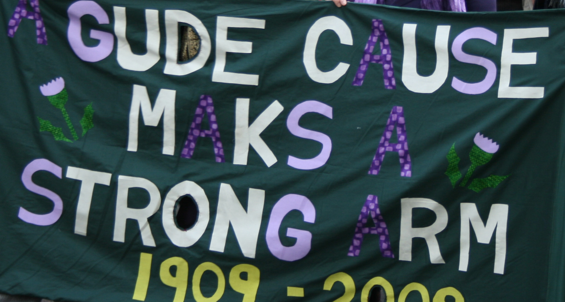 Banner at the head of the Procession in Edinburgh in 2009, organised by Gude Cause.